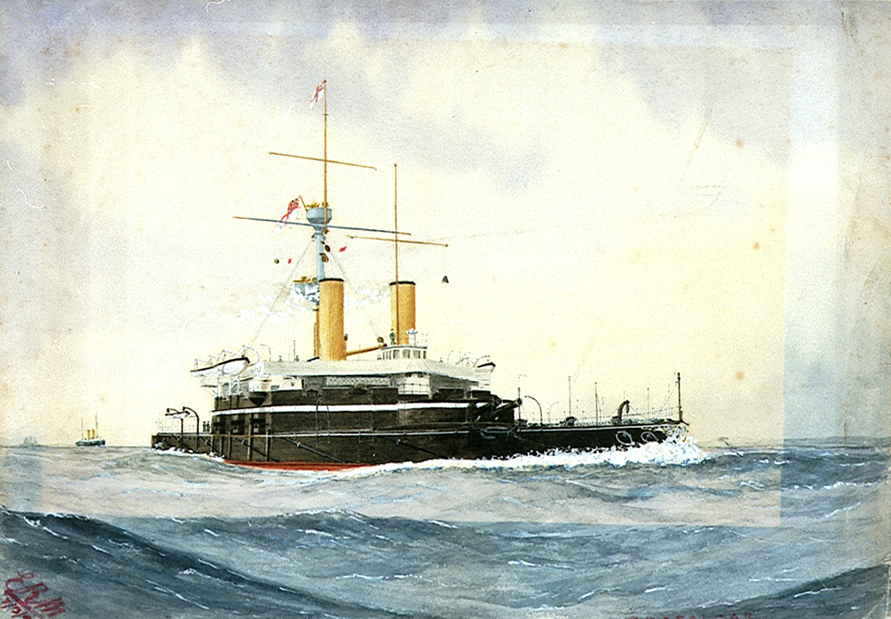 H.M.S. Trafalgar Medium includes bodycolour.